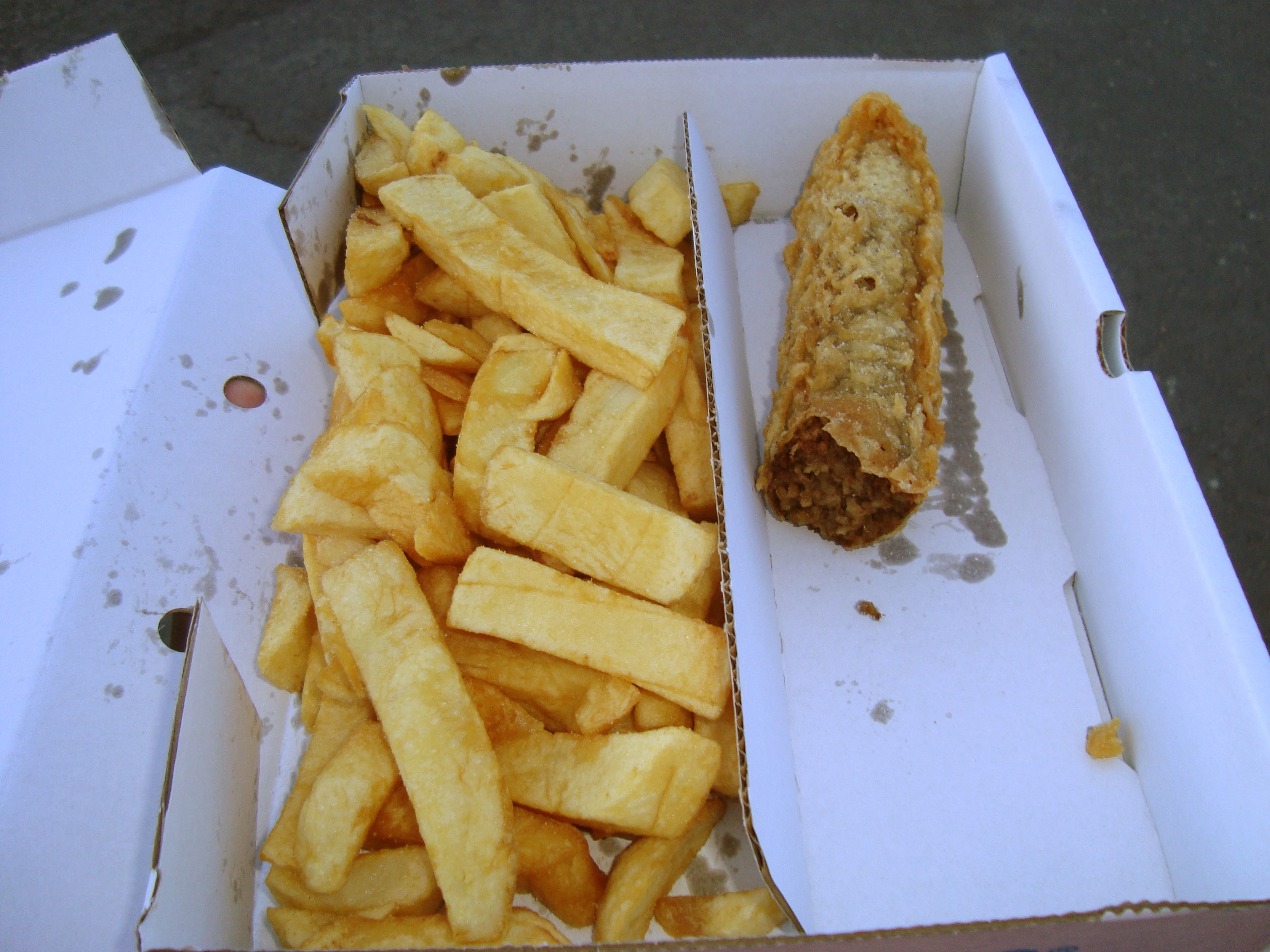 Haggis supper (haggis and chips), Kirriemuir